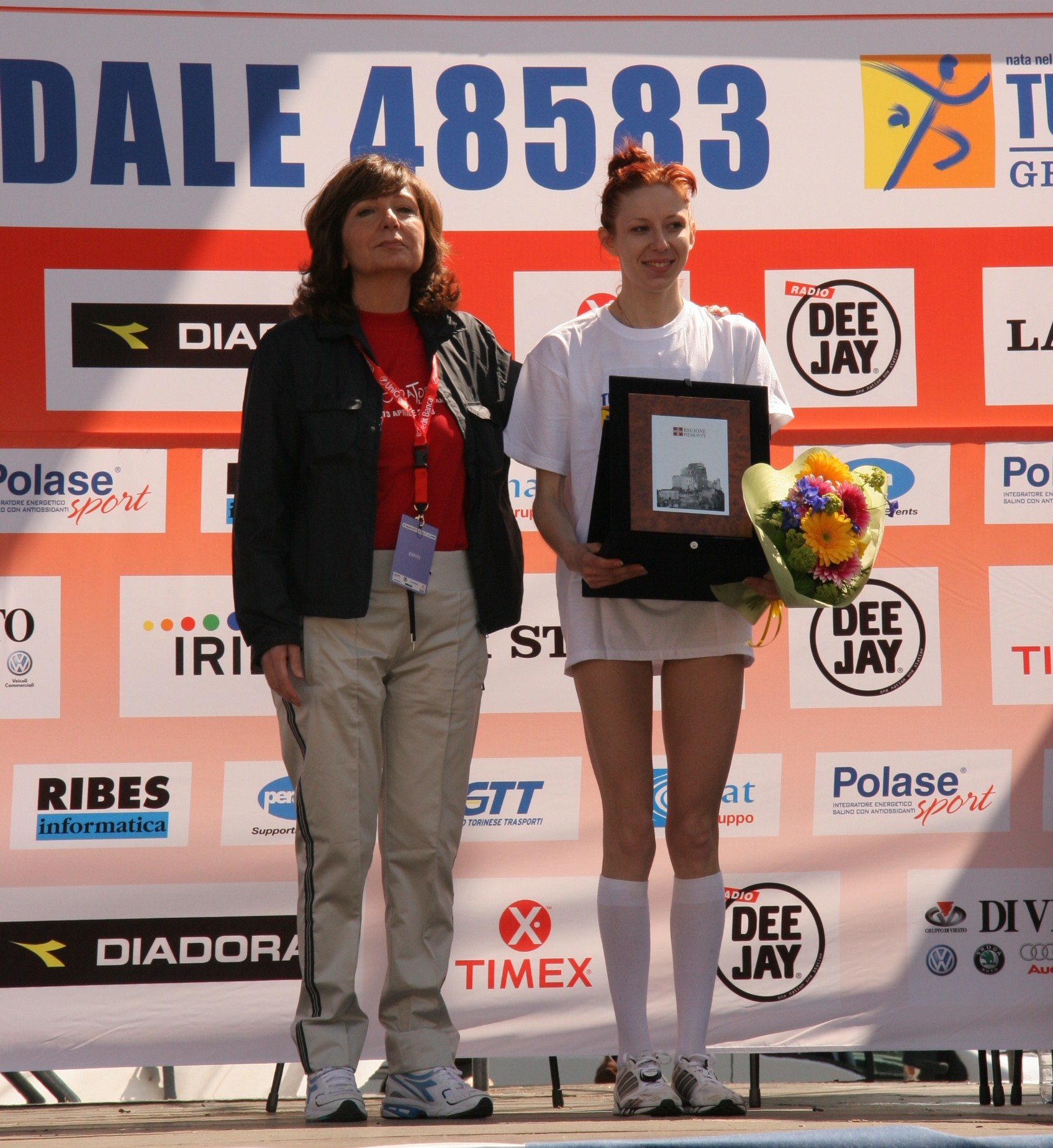 Vincenza Sicari atop the podium at the 2008 Turin Marathon